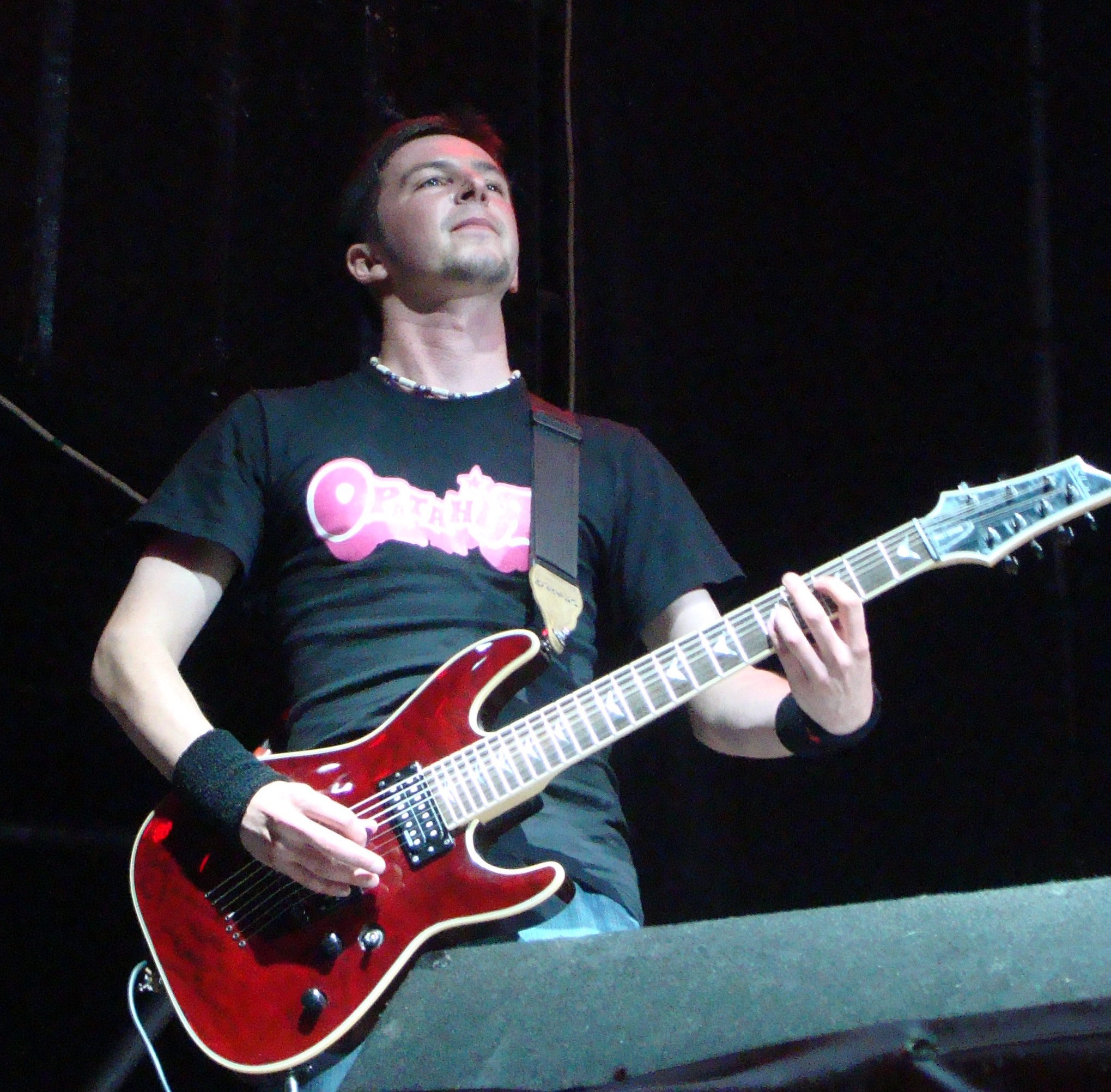 Andrij Derkač, guitarist of the band "Oratania" (during the Pidkamin festival 2011).